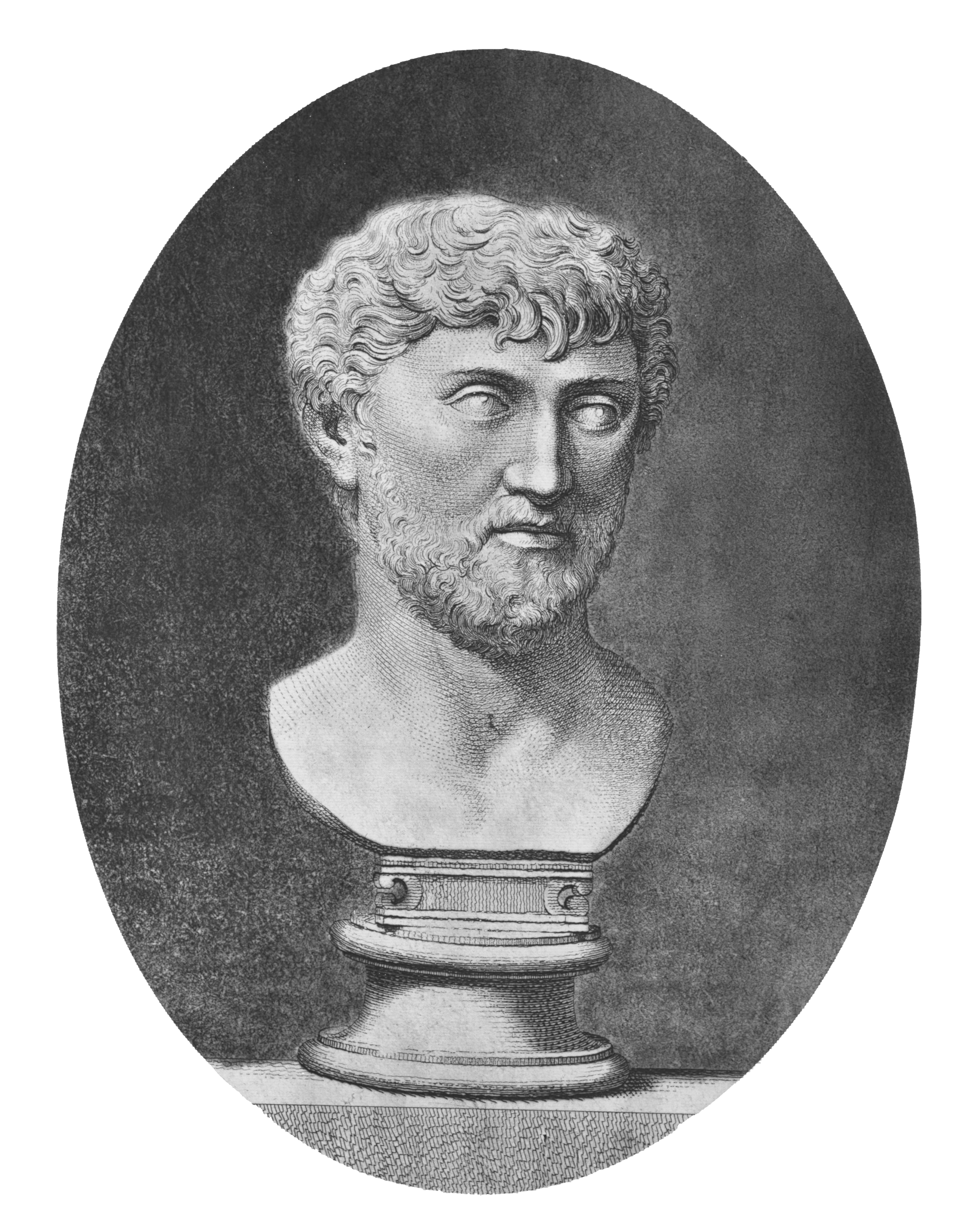 Titus Lucretius Carus (ca. 99 BC – ca. 55 BC) — a Roman poet and philosopher (with transparent background)